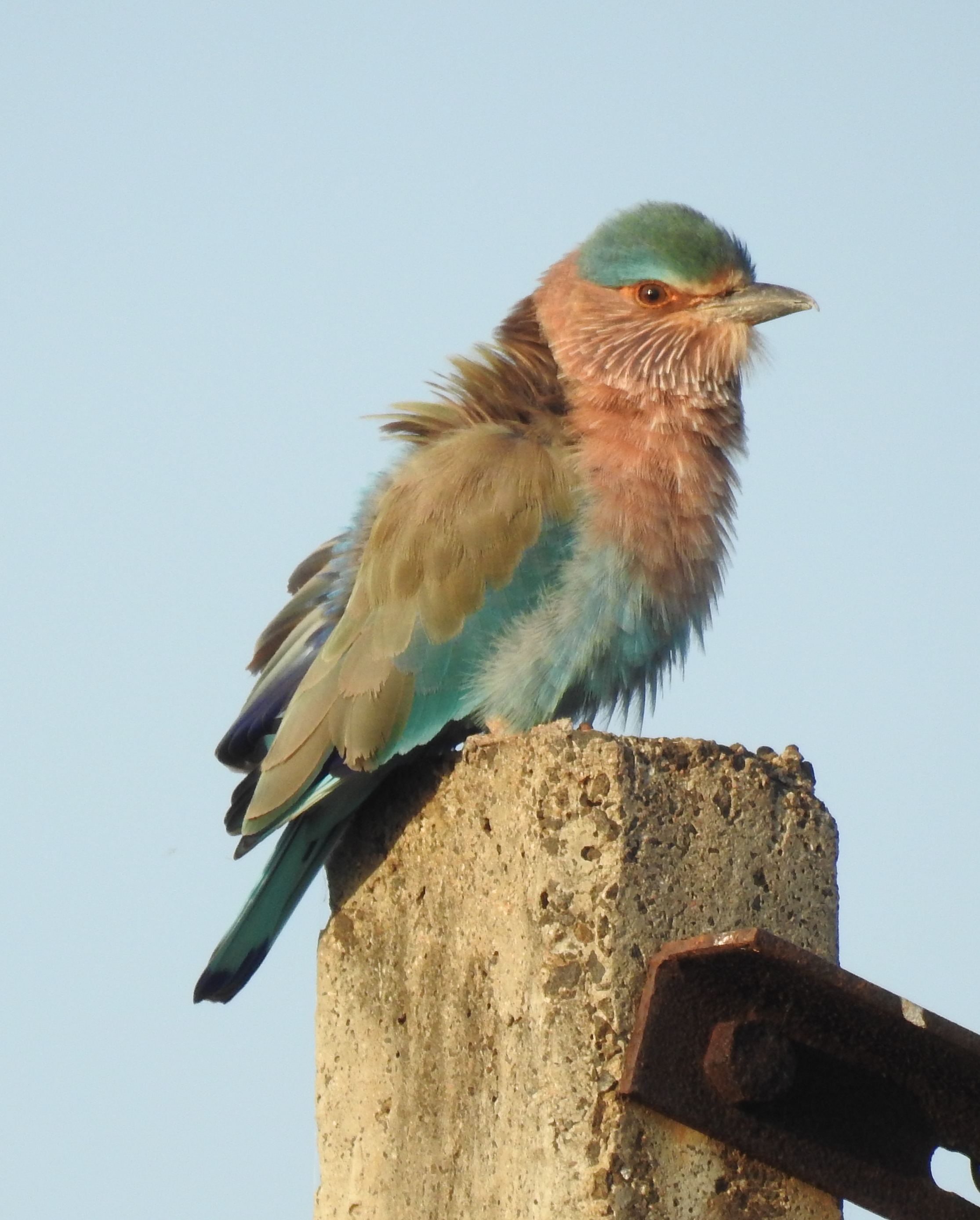 Indian Roller Coracias benghalensis. Photographed in Yavatmal district, Maharashtra, India.